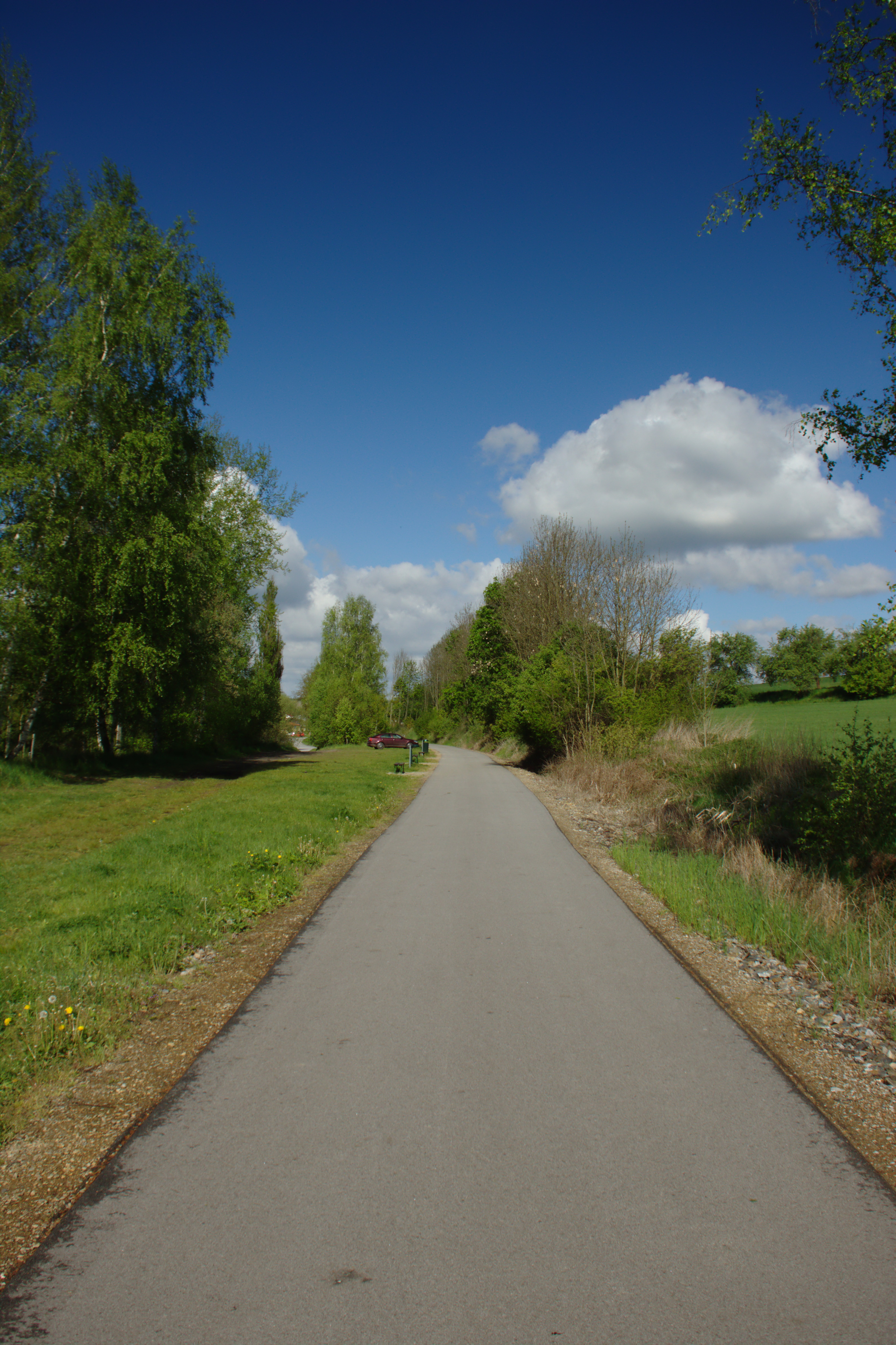 Přibyslav section of the bikeway Přibyslav-Žďár nad Sázavou, created at a place of the former train track Havlíčkův Brod-Žďár nad Sázavou. Vysočina Region, CZ